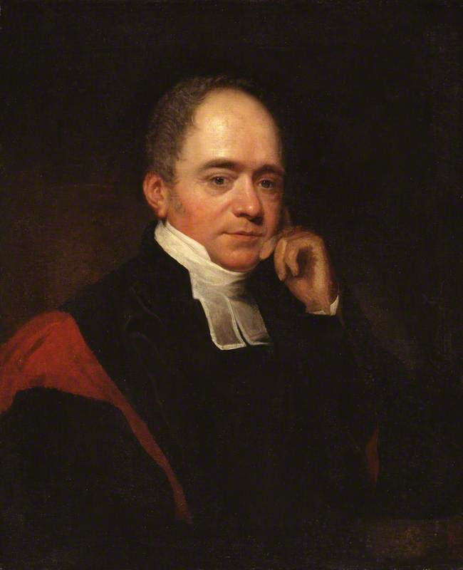 Portrait of Edward Copleston (1776–1849), Bishop of Llandaff. Copleston was an English clergyman and academic, Provost of Oriel College, Oxford (1814–1828), Bishop of Llandaff (1827–1849), professor of poetry at Oxford 1802-1812.